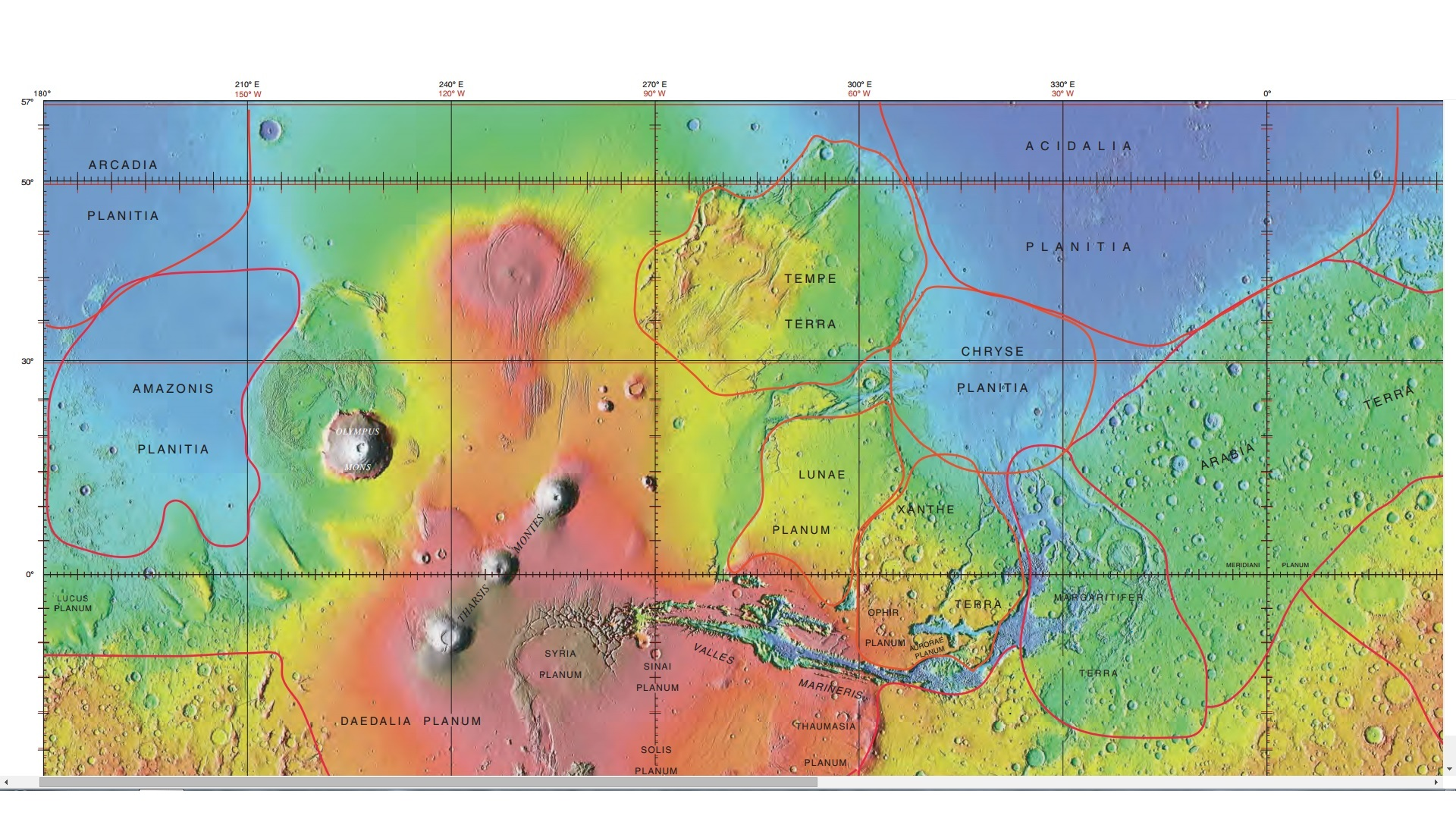 Mola map showing acidalium boundaries and other regions